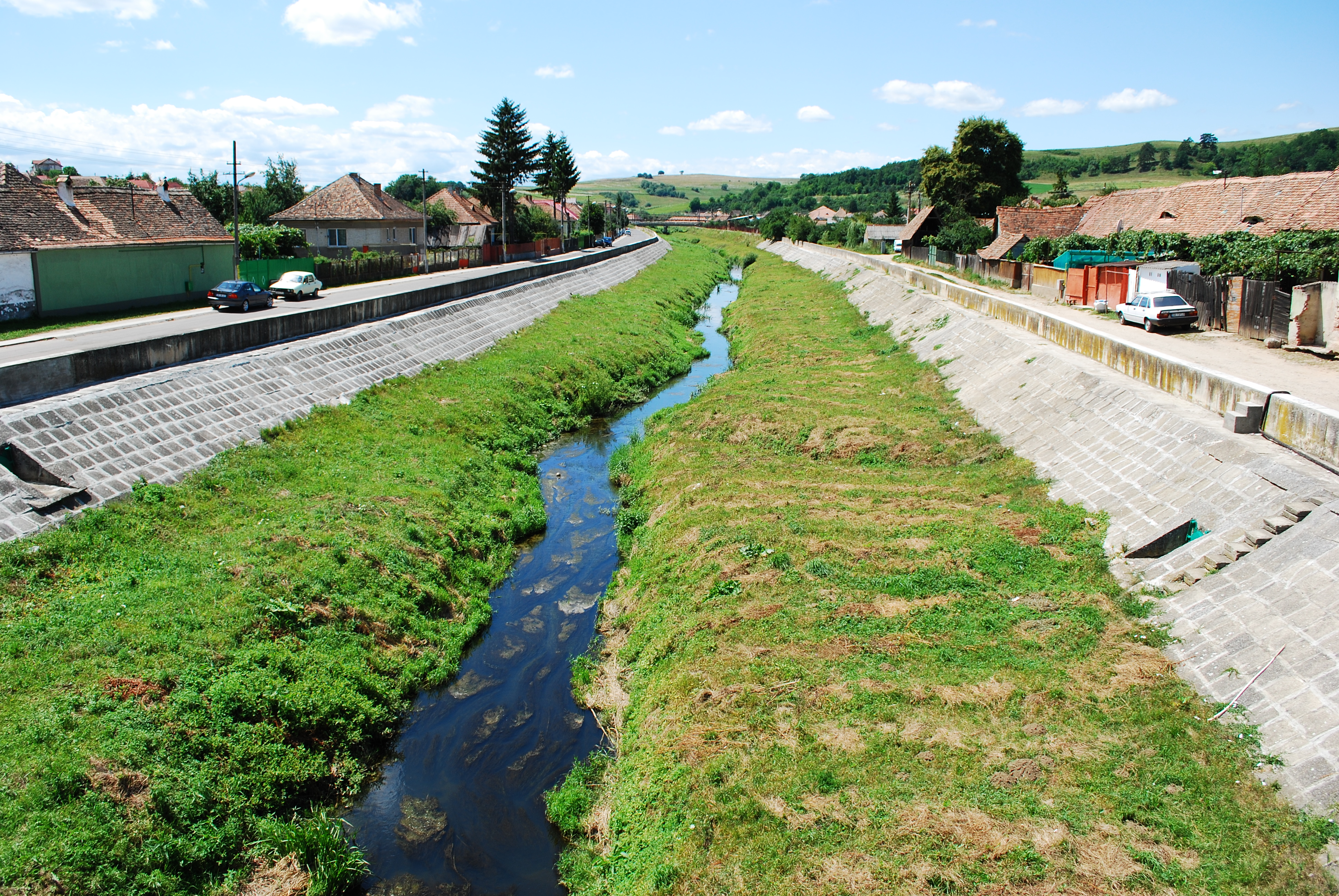 Hârtibaciu River crossing the town of Agnita, Sibiu County, Romania